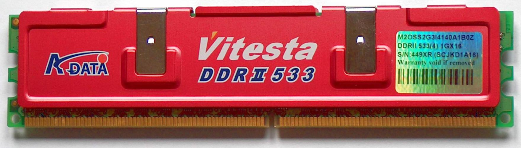 ADATA 1GB DDR2 RAM with cooler integrated. My work. --Fabexplosive